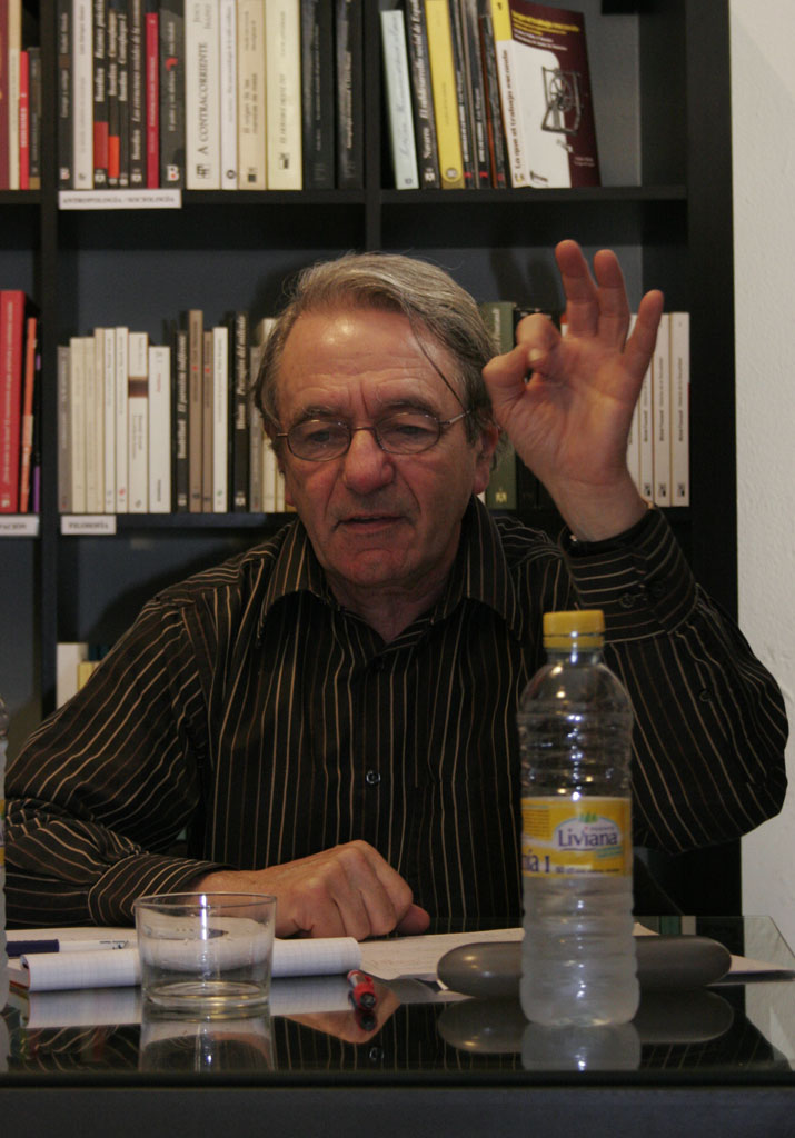 Jacques Rancière at a conference held in the Universidad Internacional de Andalucía, in Seville (Spain) in 2006.